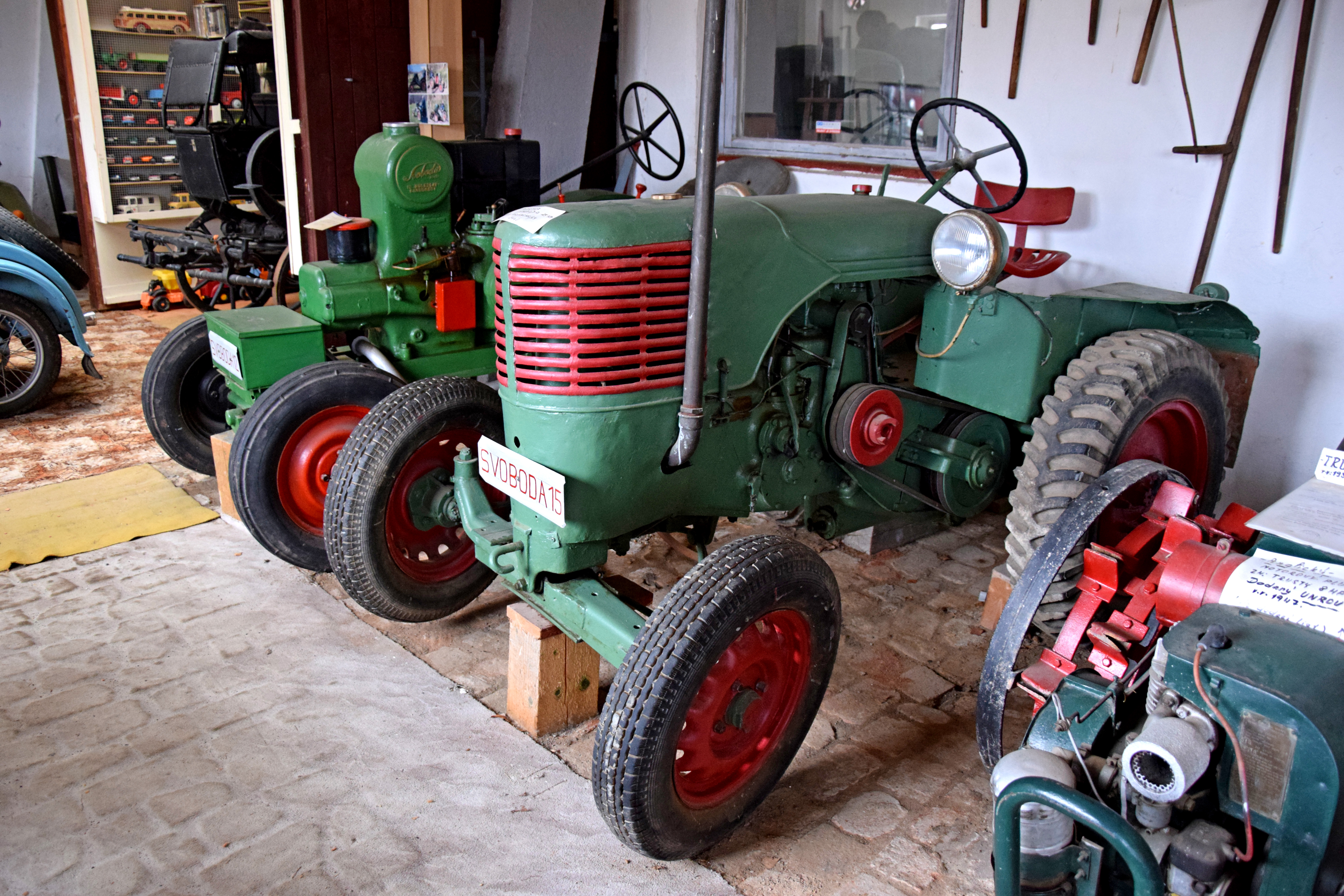 Tractor Svoboda 15 in the Museum of historical vehicles, agricultural technology and crafts in Pořežany, České Budějovice District, the Czech Republic.